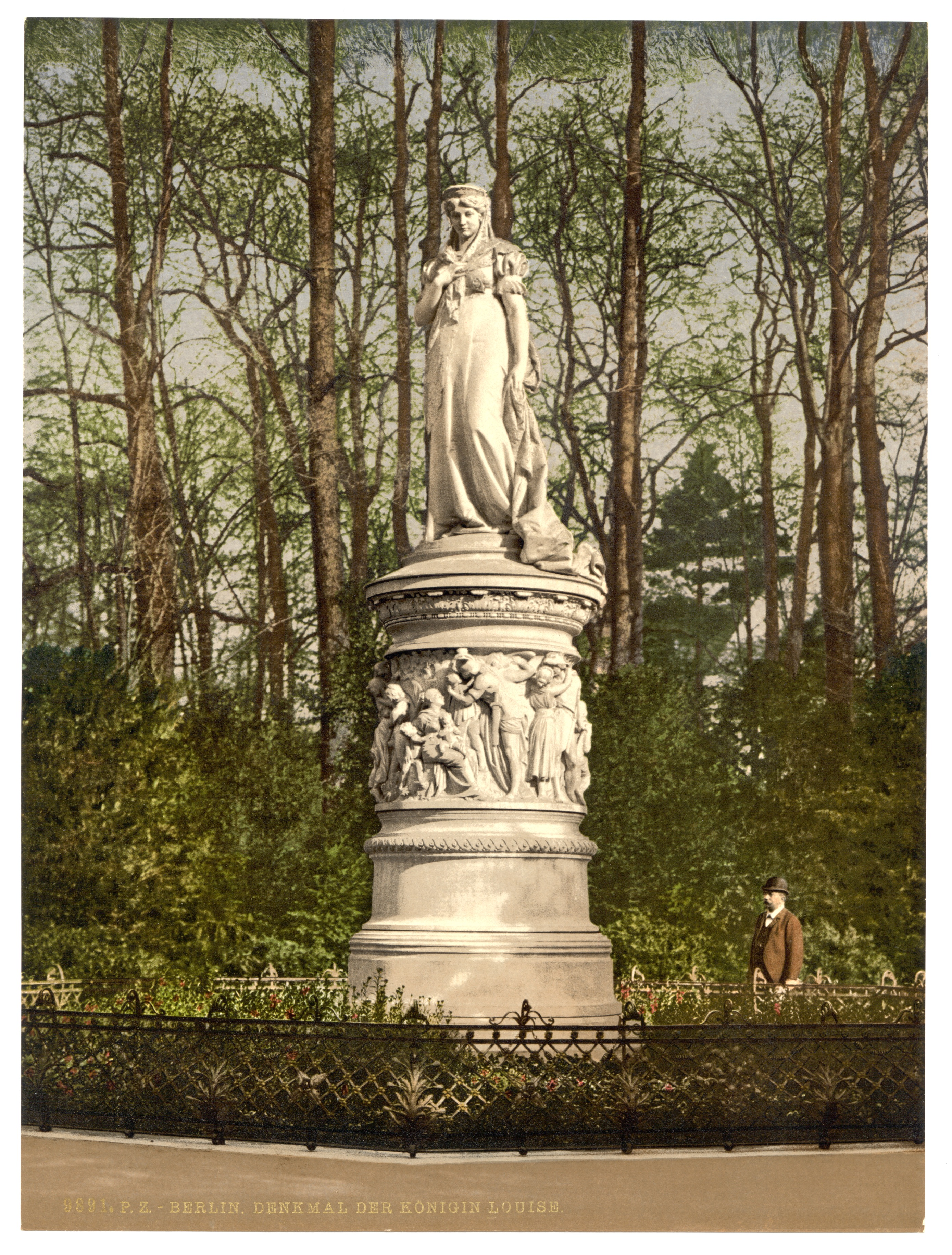 Print no. "9891".; Title from the Detroit Publishing Co., catalogue J-foreign section. Detroit, Mich. : Detroit Photographic Company, 1905..; Forms part of: Views of Germany in the Photochrom print collection.